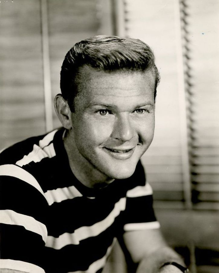 Publicity photo of Martin Milner